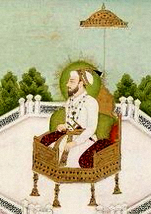 Shah Jahan II (Rafi ud-Daulah) of India. Place of origin:Punjab Plains, Pakistan (probably; Sikh with Guler influence, made). Materials and Techniques:Painted in opaque watercolour and gold on paper. Credit Line:Given by O.E. Dickinson. Victoria and Albert Museum number:IS.130-1953.